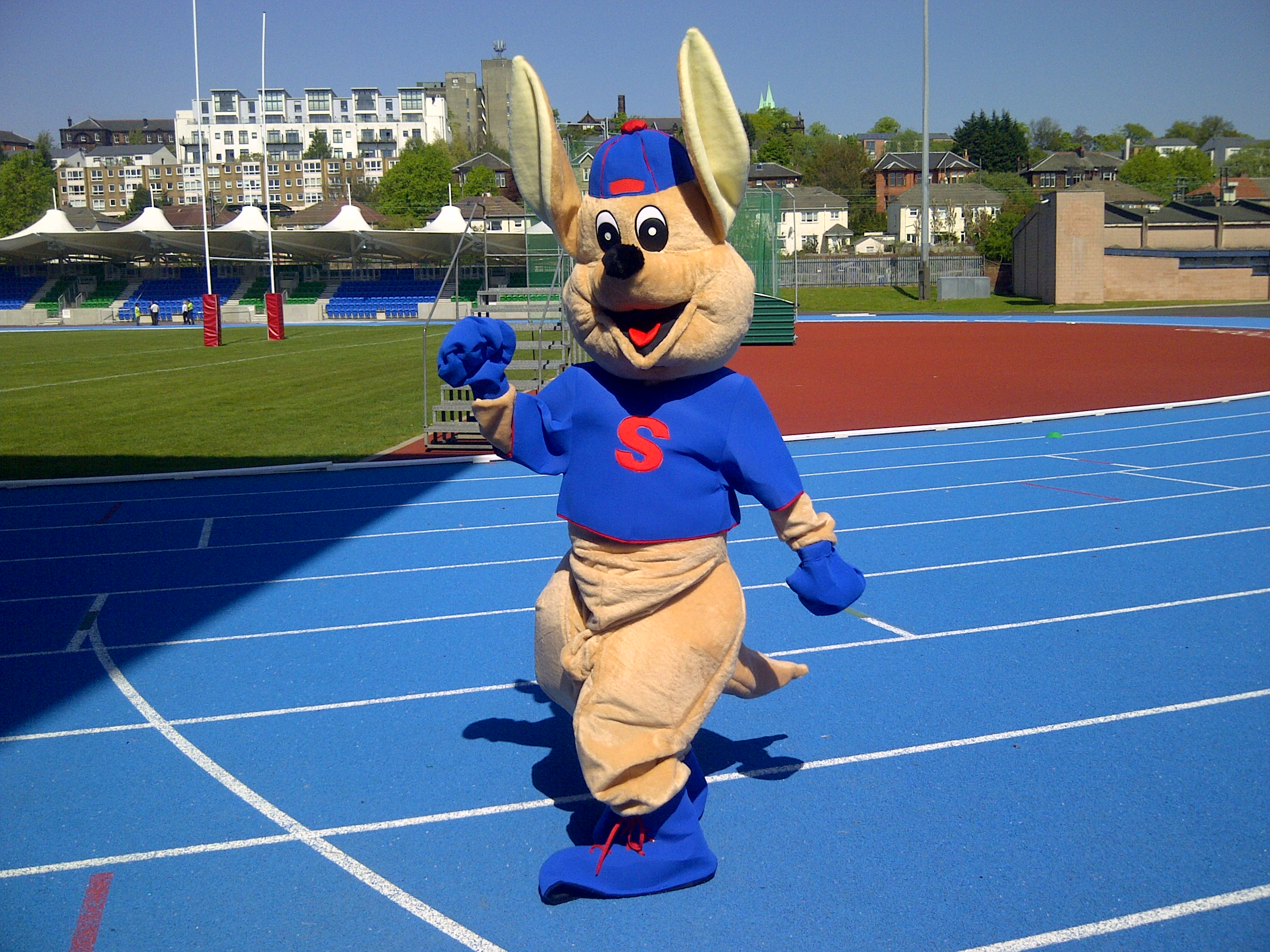 ScottieRoo